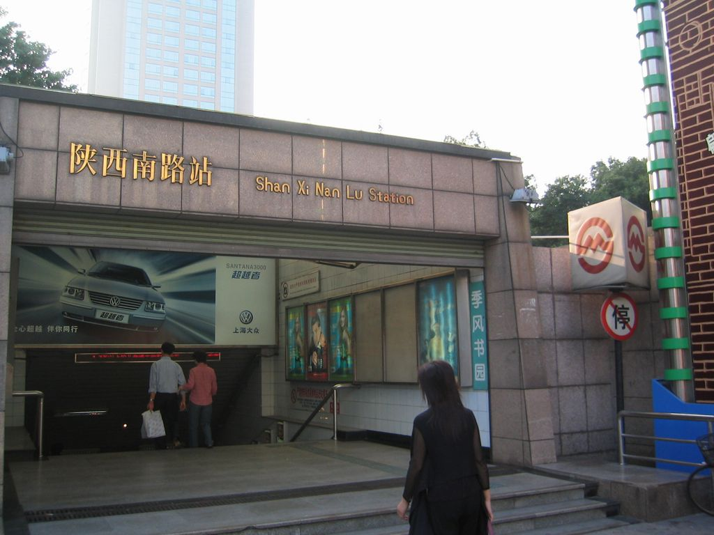 Entrance of ShanXiNanLu metro station in Shanghai